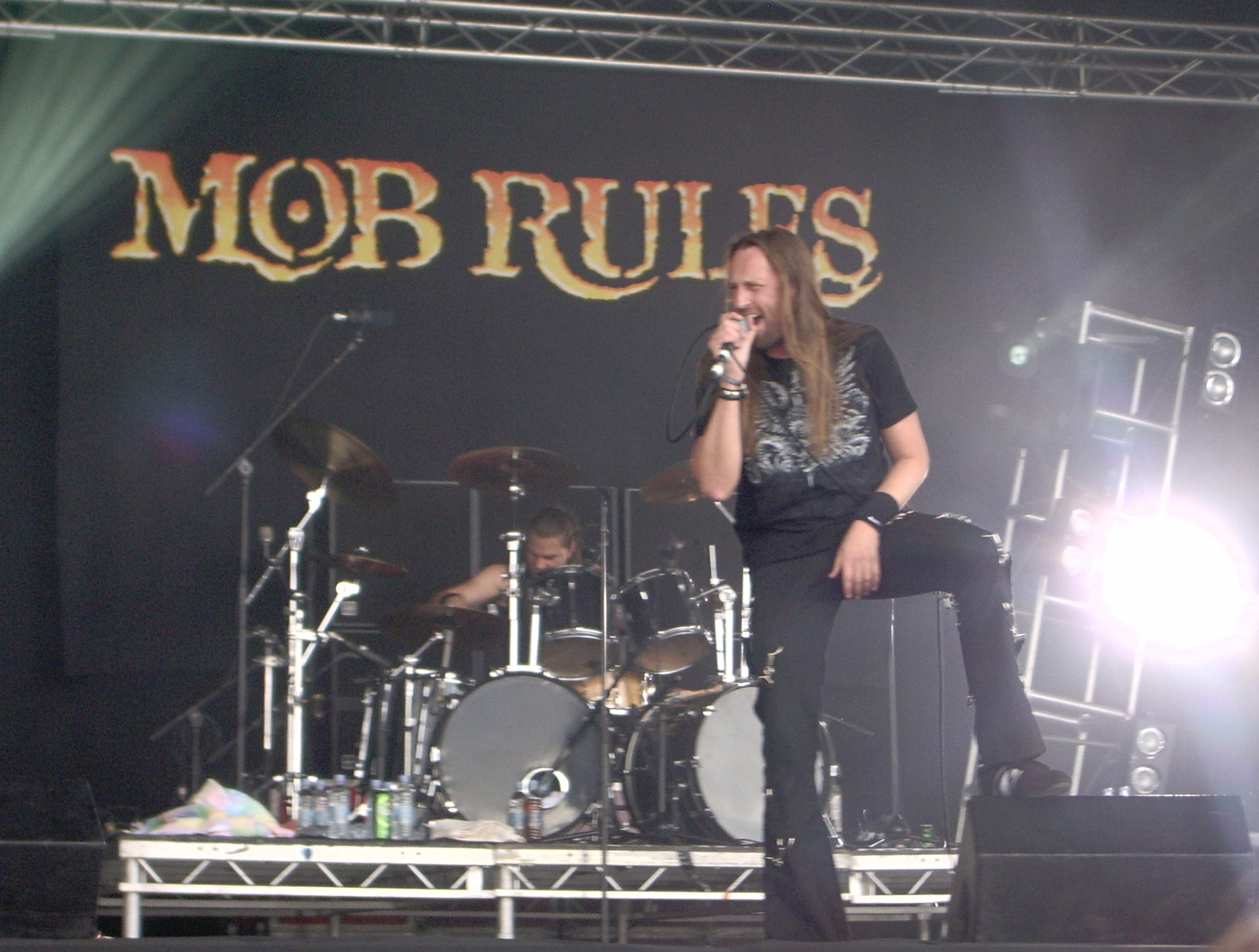 Mob Rules performing at the Bloodstock Open Air festival in 2008